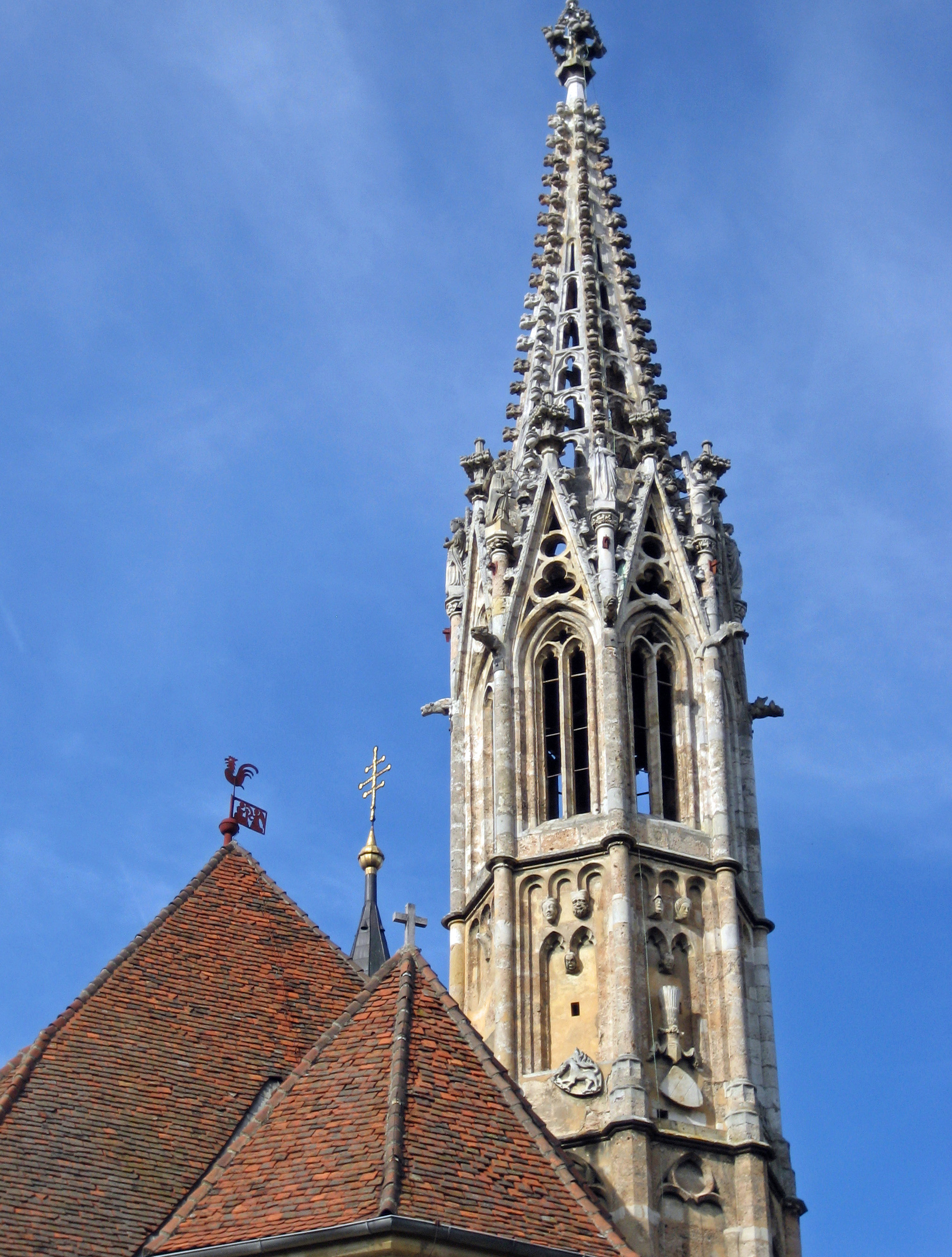 Church Maria Straßengel (Maria Strassengel), near Graz, Austria